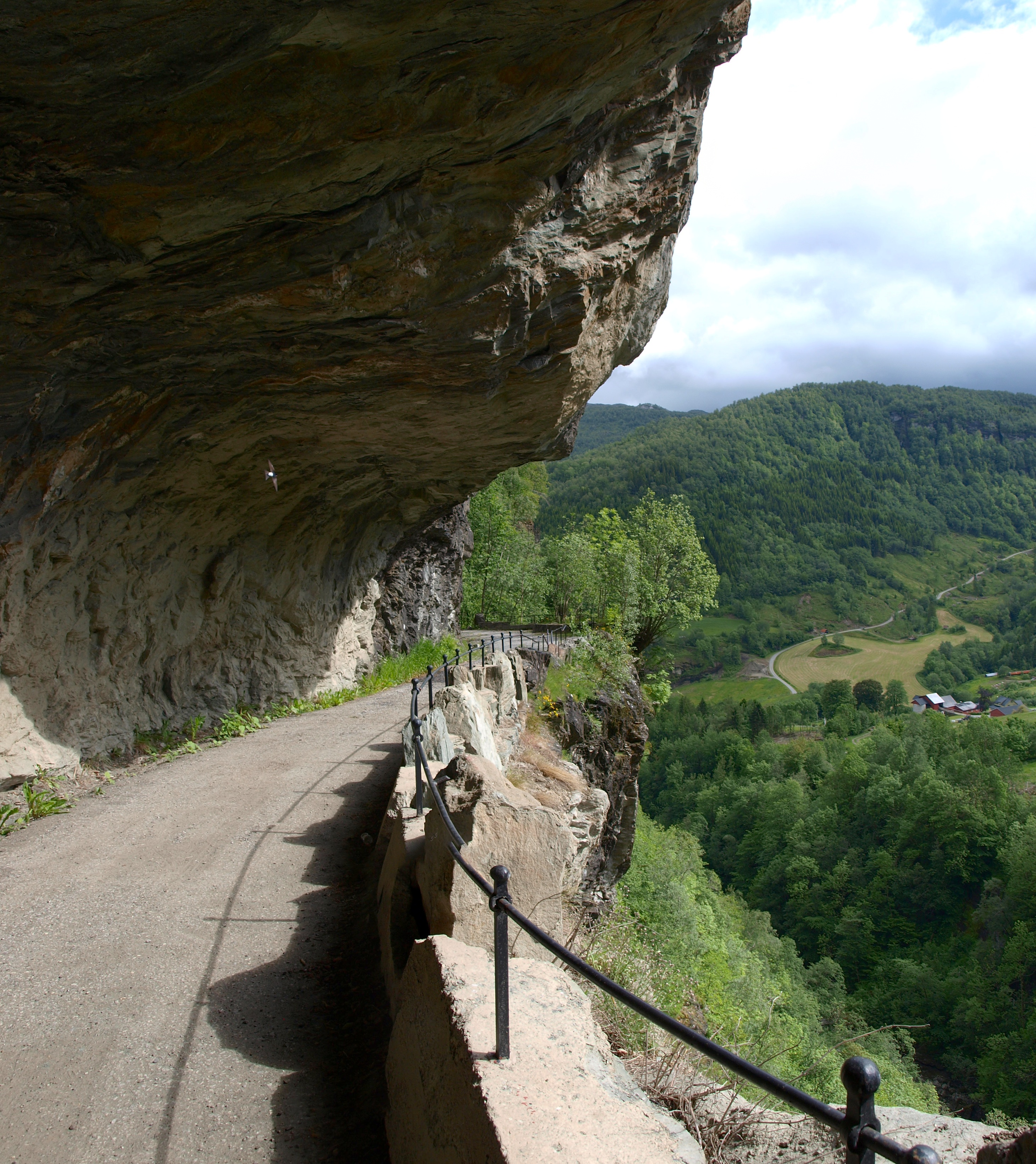 Part of the old Riksvei 7, Kvam, now replaced by Snauhaugtunnelen. The road are carved into the cliff. Mosaic from multiple images made with hugin (software).